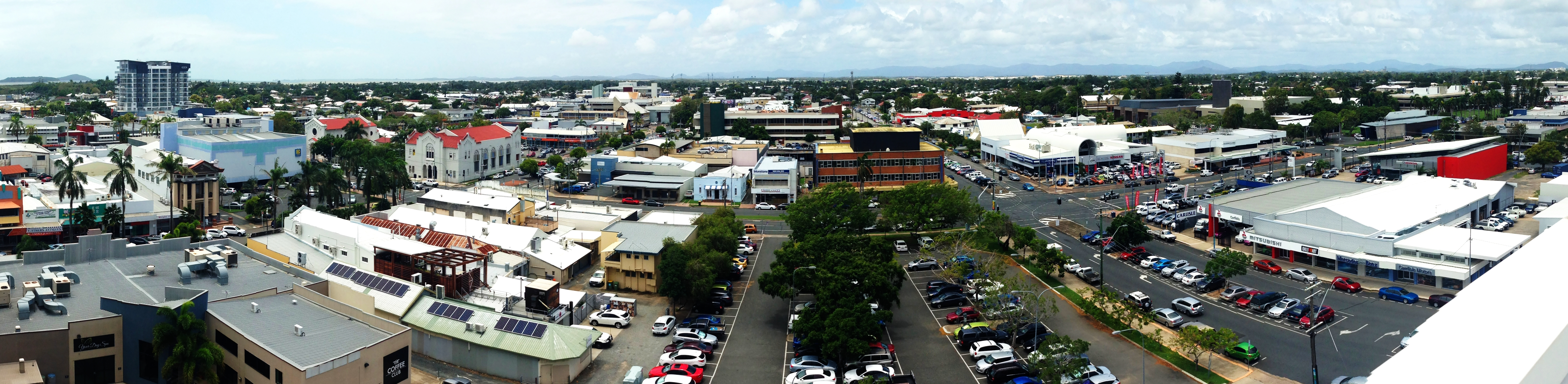 Mackay CBD as seen from the rooftop of Mackay Grande Suites